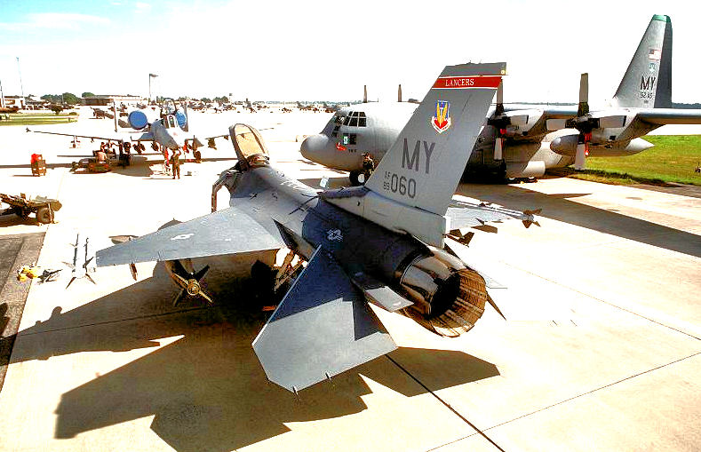 USAF F-16C block 40 #89-2060 of the 68th FS and a C-130 Hercules aircraft represent the type of aircraft that make up ACC's third and newest Composite Wing, the 347th AW at Moody AFB, on July 1st, 1995. [USAF photo by SMSgt. Boyd Belcher]